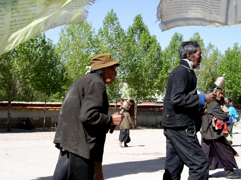 Pilgrims circumambulate the Kumbum at Gyantse, Tibet